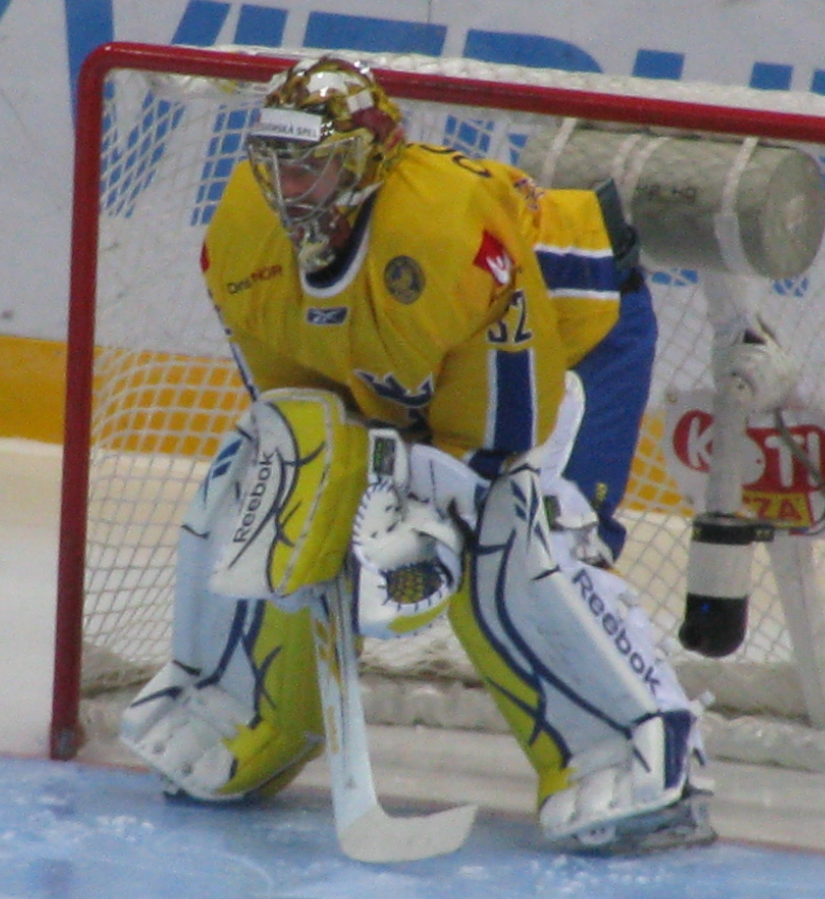 Mikael Tellqvist in a match against Finland (7-0 for Finland)